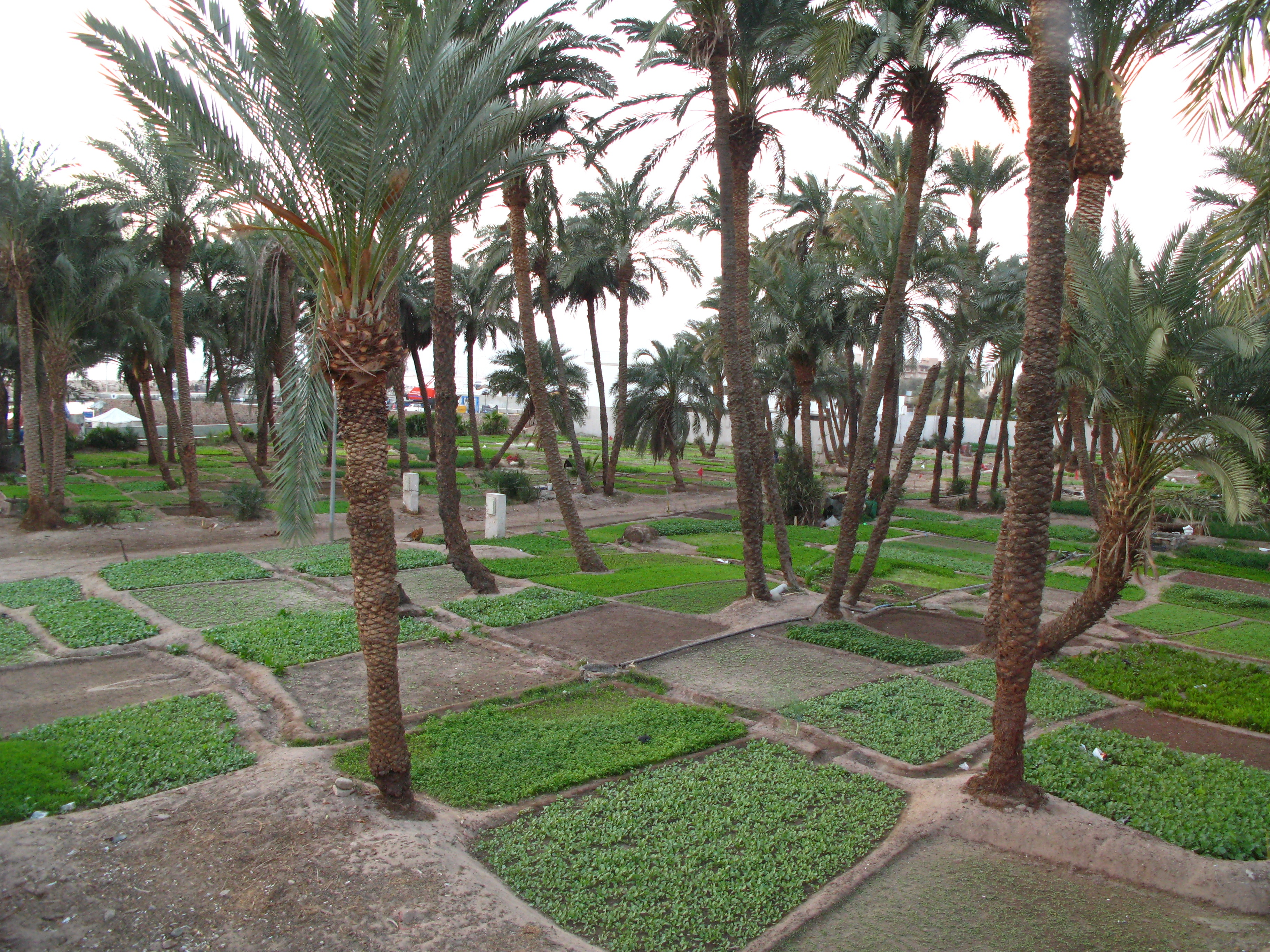 Near the beach everyone was allowes to grow whatever they needed.